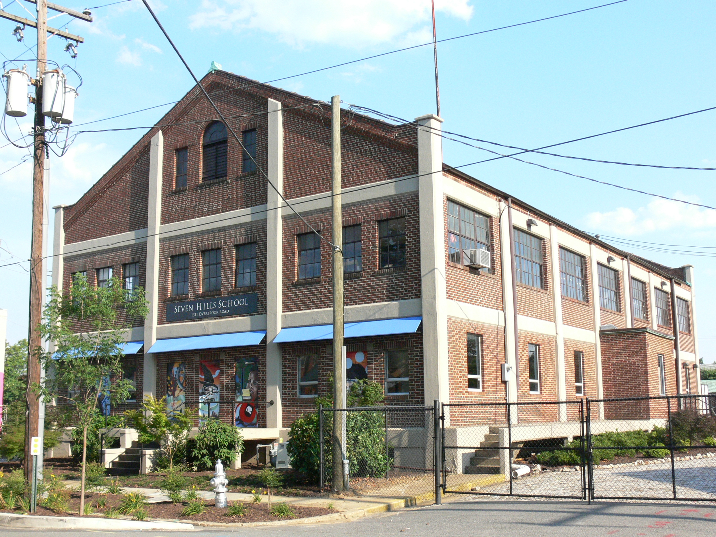 The former Department of Public Utilities Facility on Overbrook Road, in Richmond, Virginia; on the National Register of Historic Places